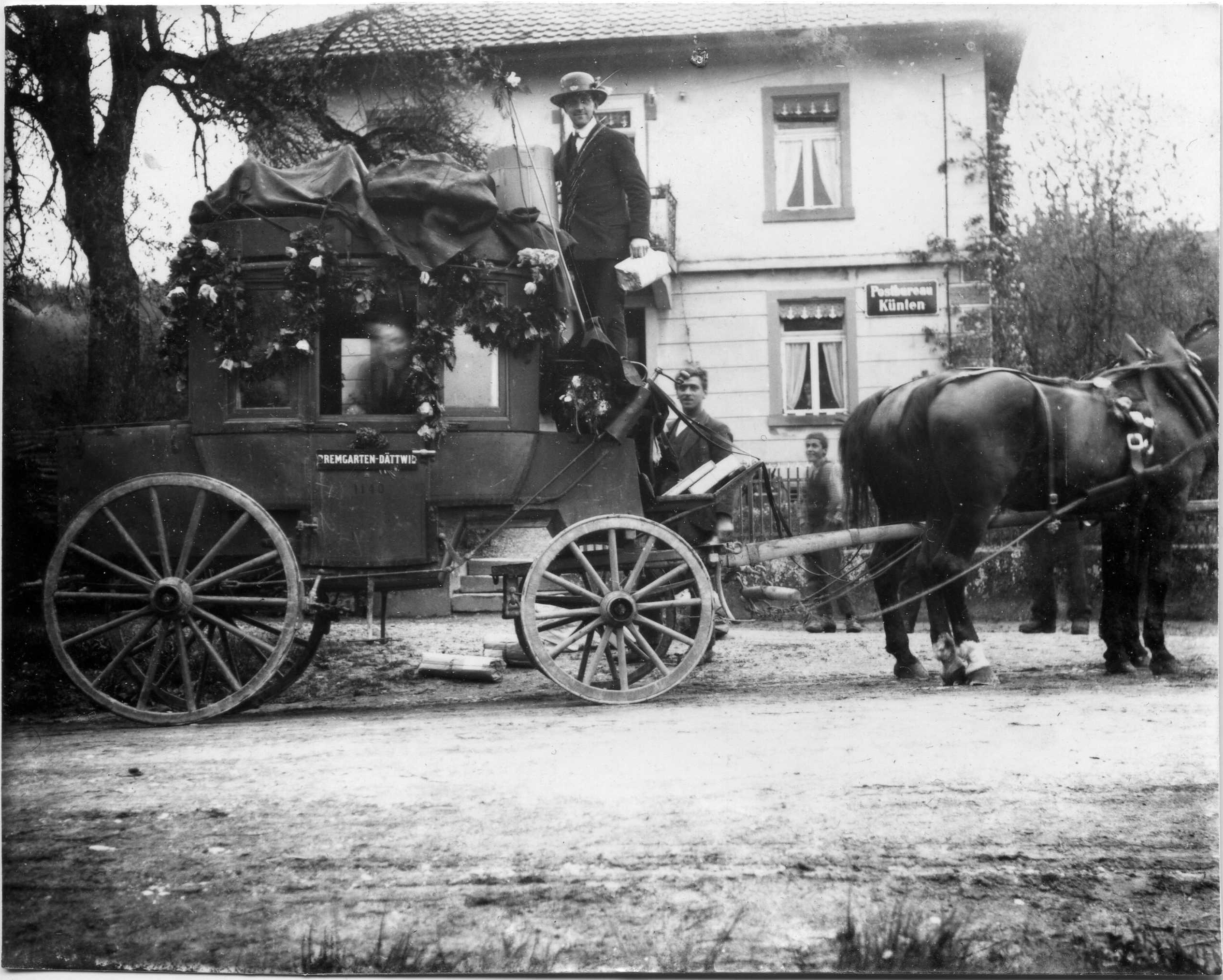 Photography of the last ride of a stagecoach between Bremgarten AG (station) and Baden-Dättwil (station). Taken 1924 in front of Künten postoffice, today Hauptstrasse N. 3, CH-5444 Künten, Switzerland.